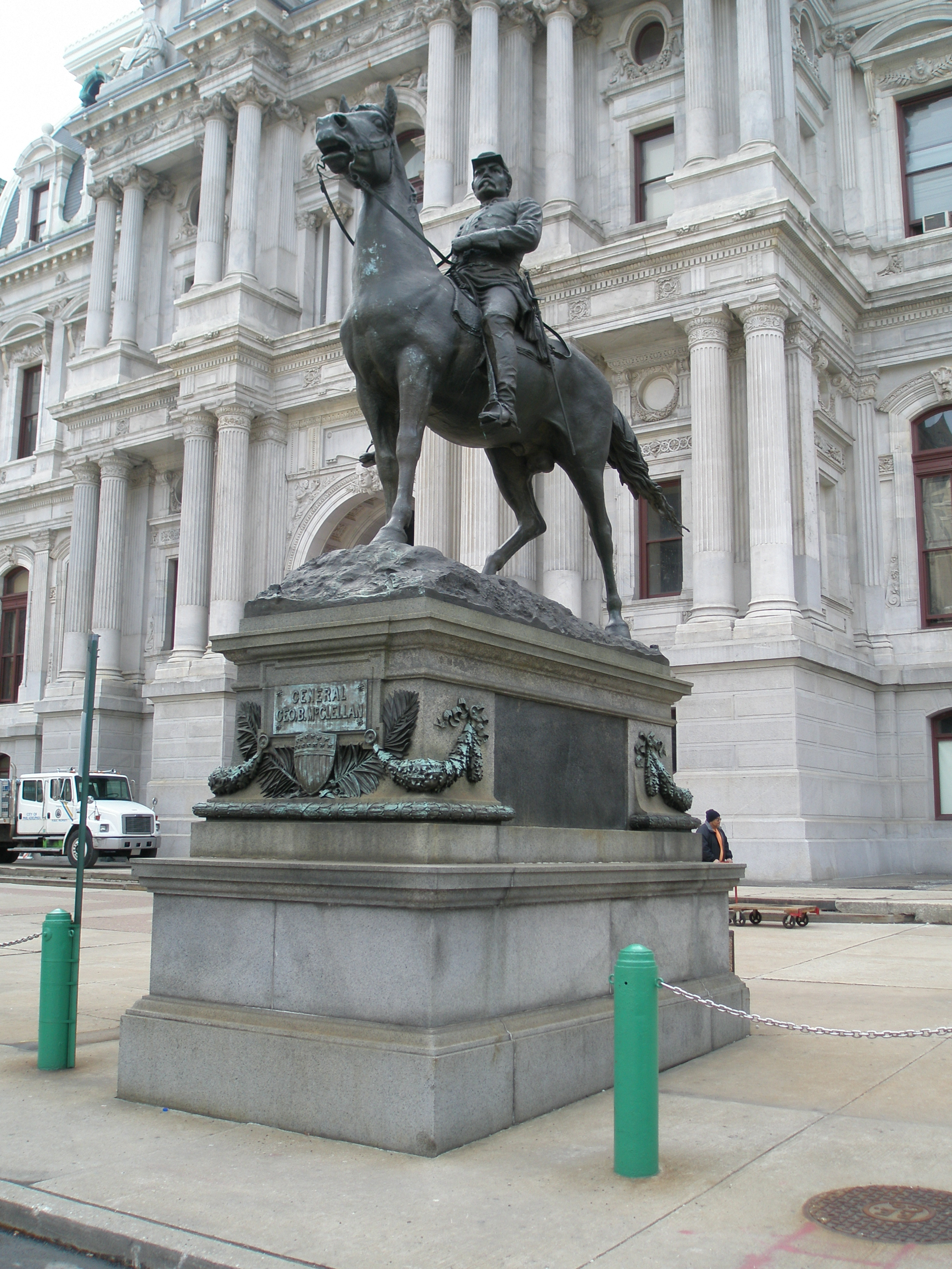 George B. McClellan in front of Philadelphia City Hall